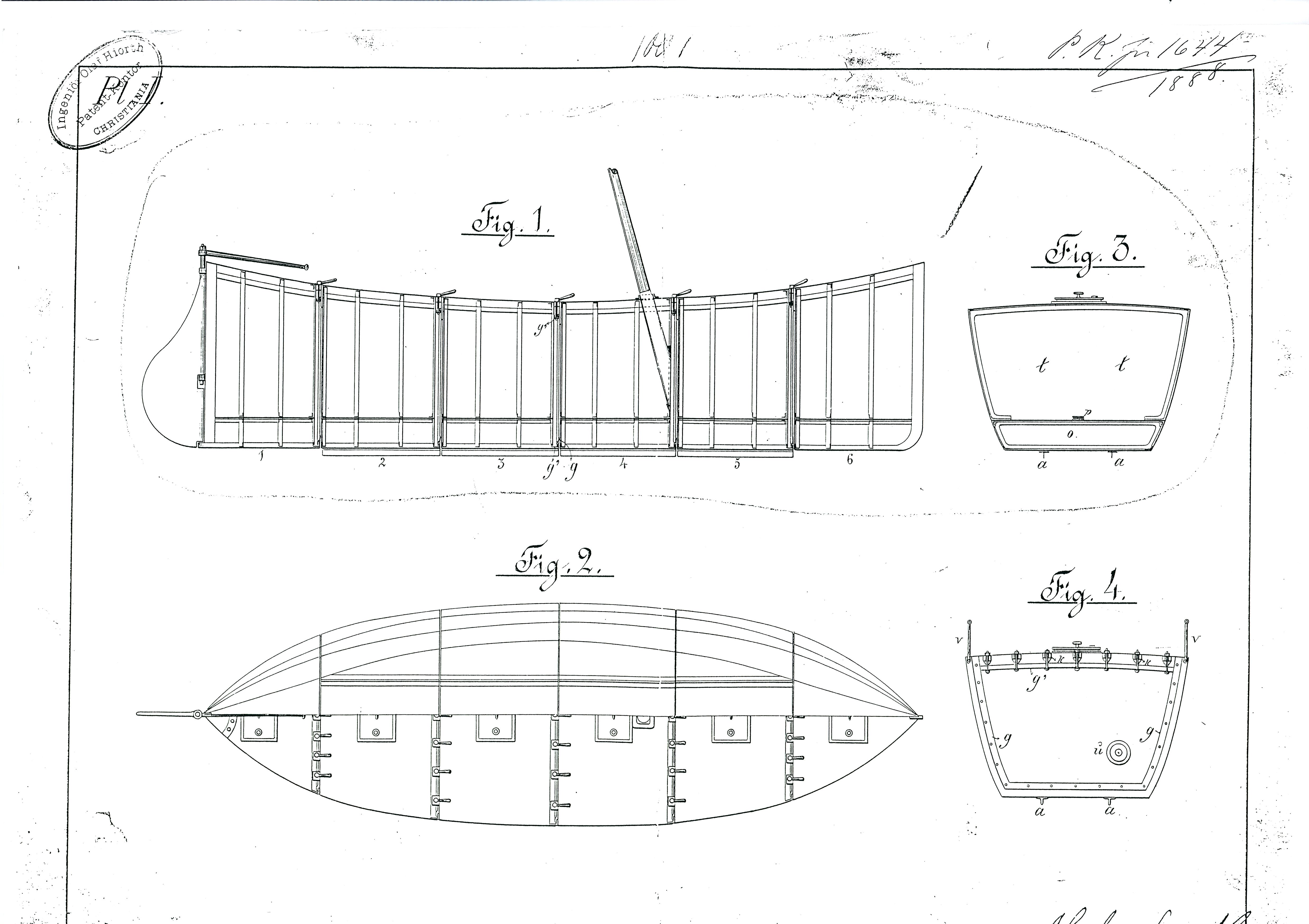 Photocopy nr 1 of the original Patent drawings, dated May 1888, for Storm King. The worlds very first capsuled lifeboat